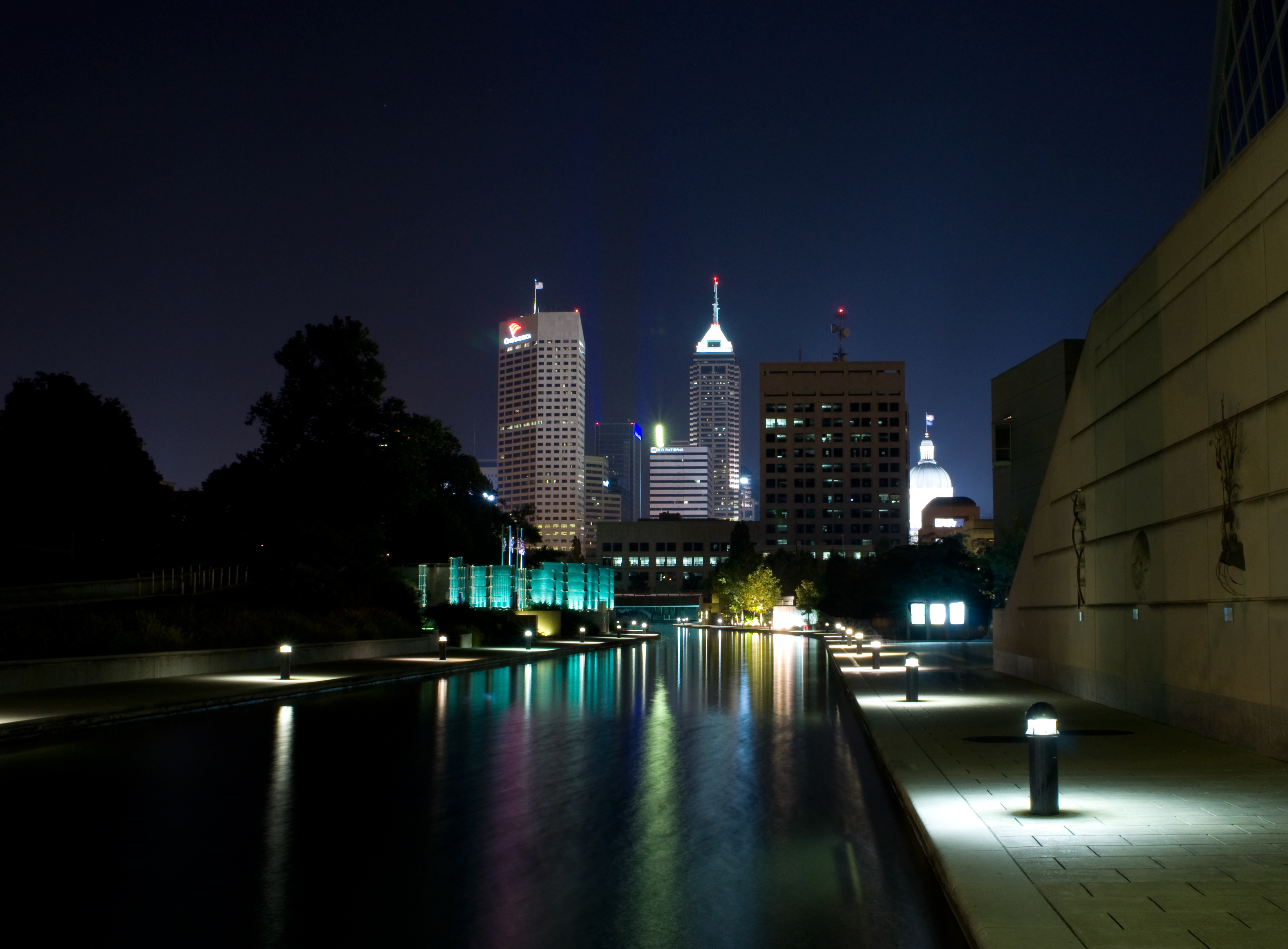 this one took it's time to develop, but was worth the wait I think.